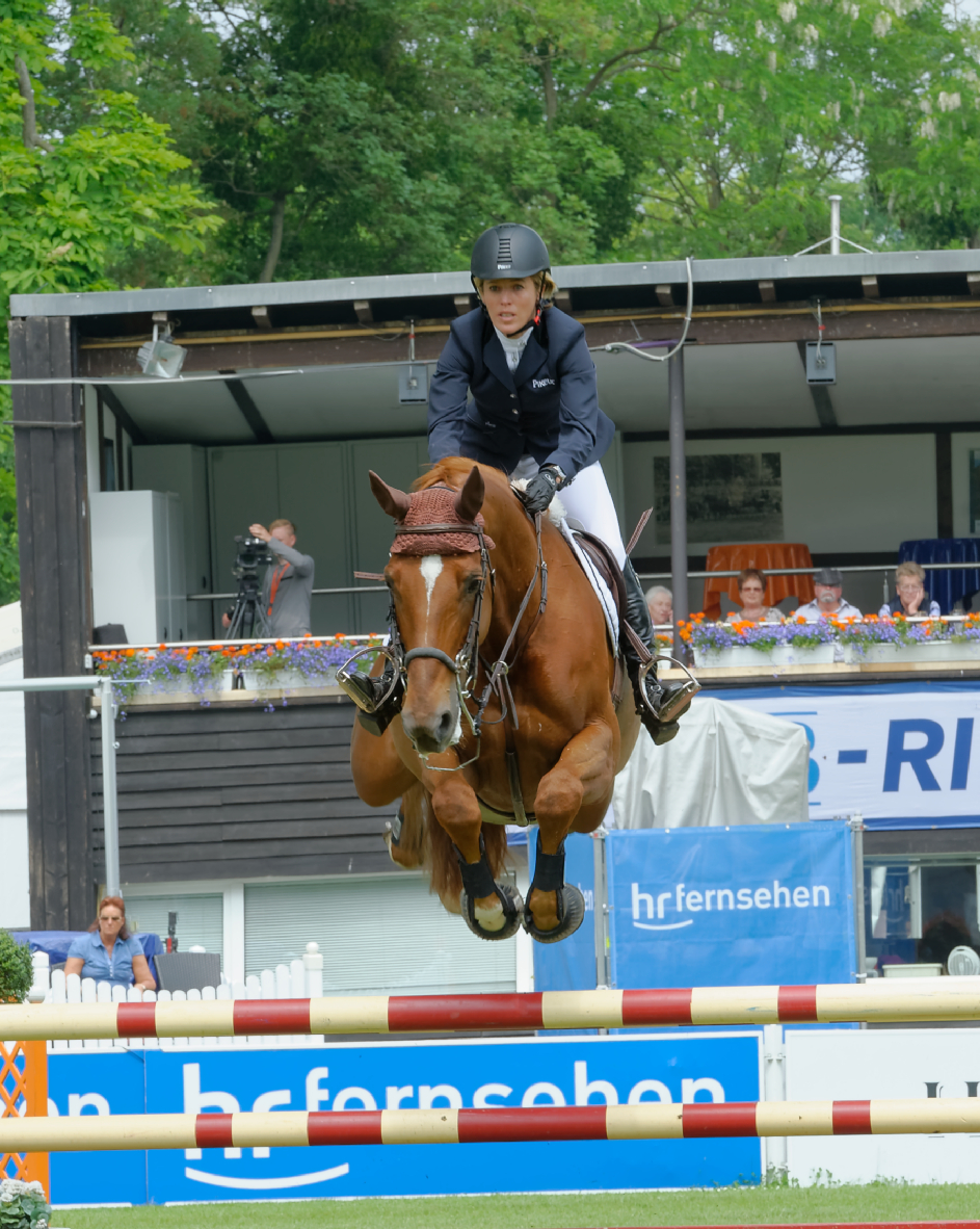 CSIYH* int. Springprüfung nach Strafpunkten und Zeit Internationales Pfingstturnier Wiesbaden 2015 The making of this document was supported by the Community-Budget of Wikimedia Germany.